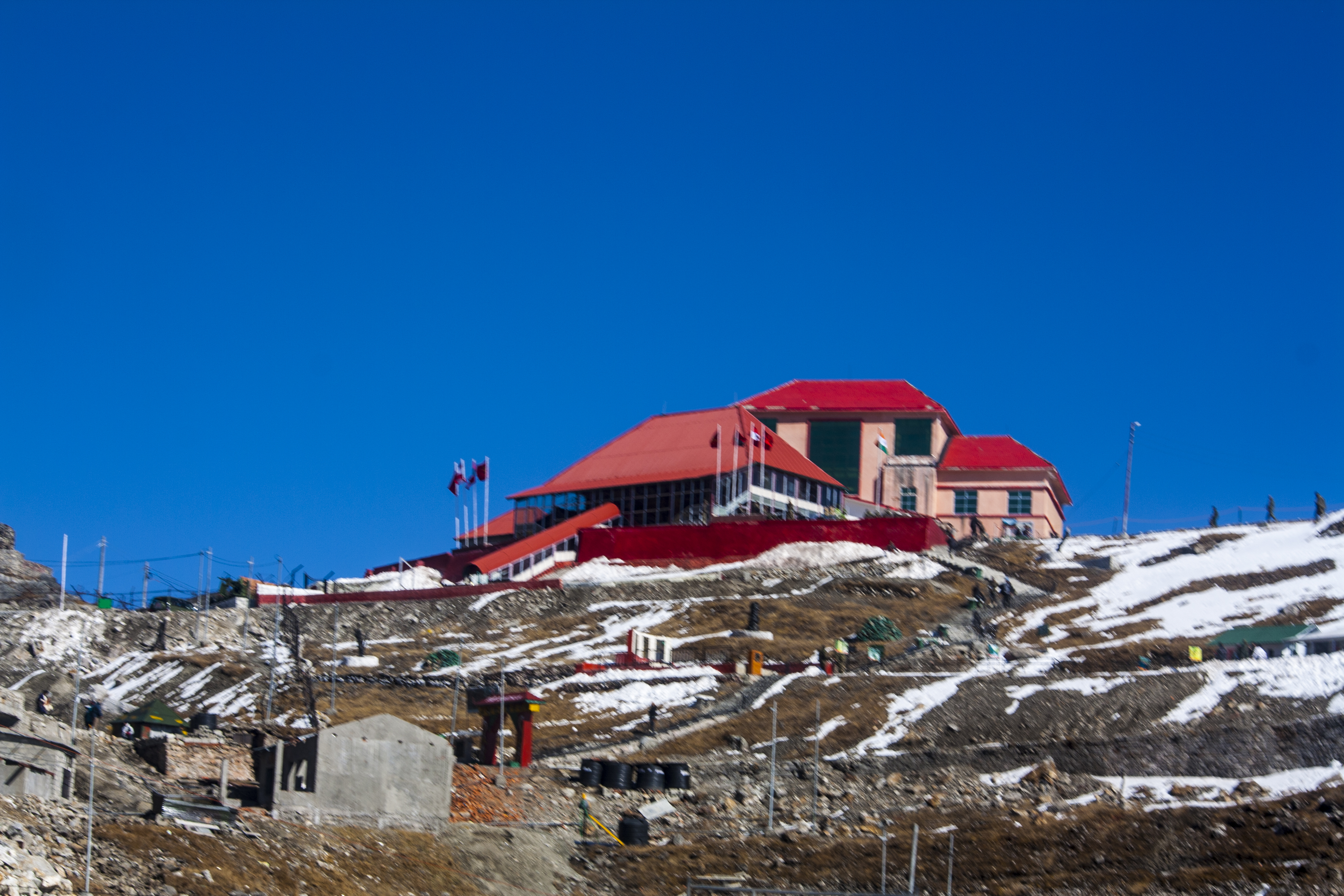 Nathu La Pass is Indo Chine Border and one of the three open trading border of India and China. Photograph has been taken during my visit to Nathu La Pass , Sikkim.